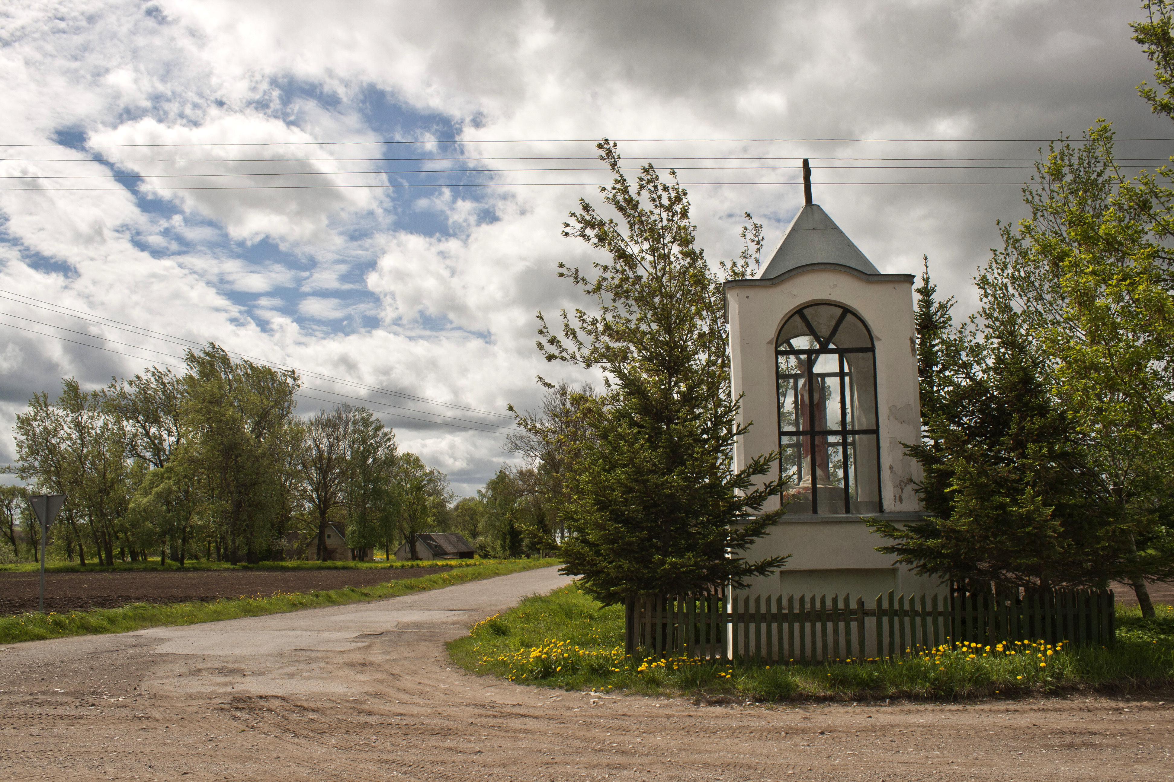 On the road junction